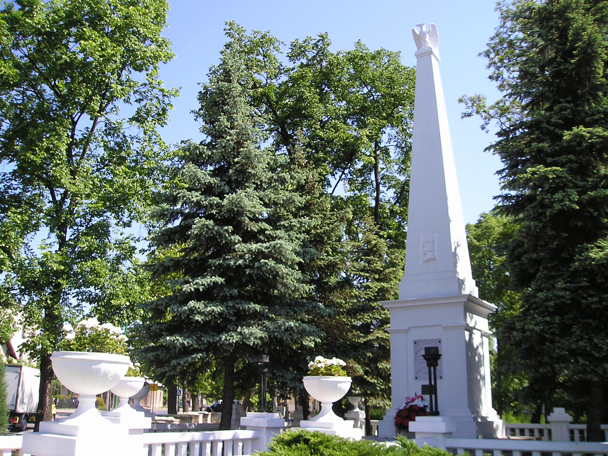 Monument of Jan Kiliński in Mielec at junction of Wolności, Jadernych and Mickiewicza streets